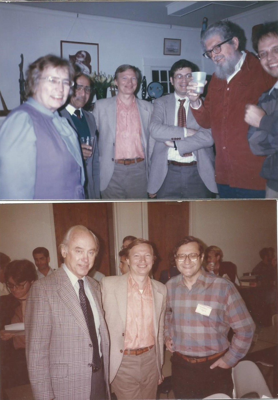 Igor Zurbenko with E.Parzen,T.W.Anderson and Department of Statistics UC Berkeley